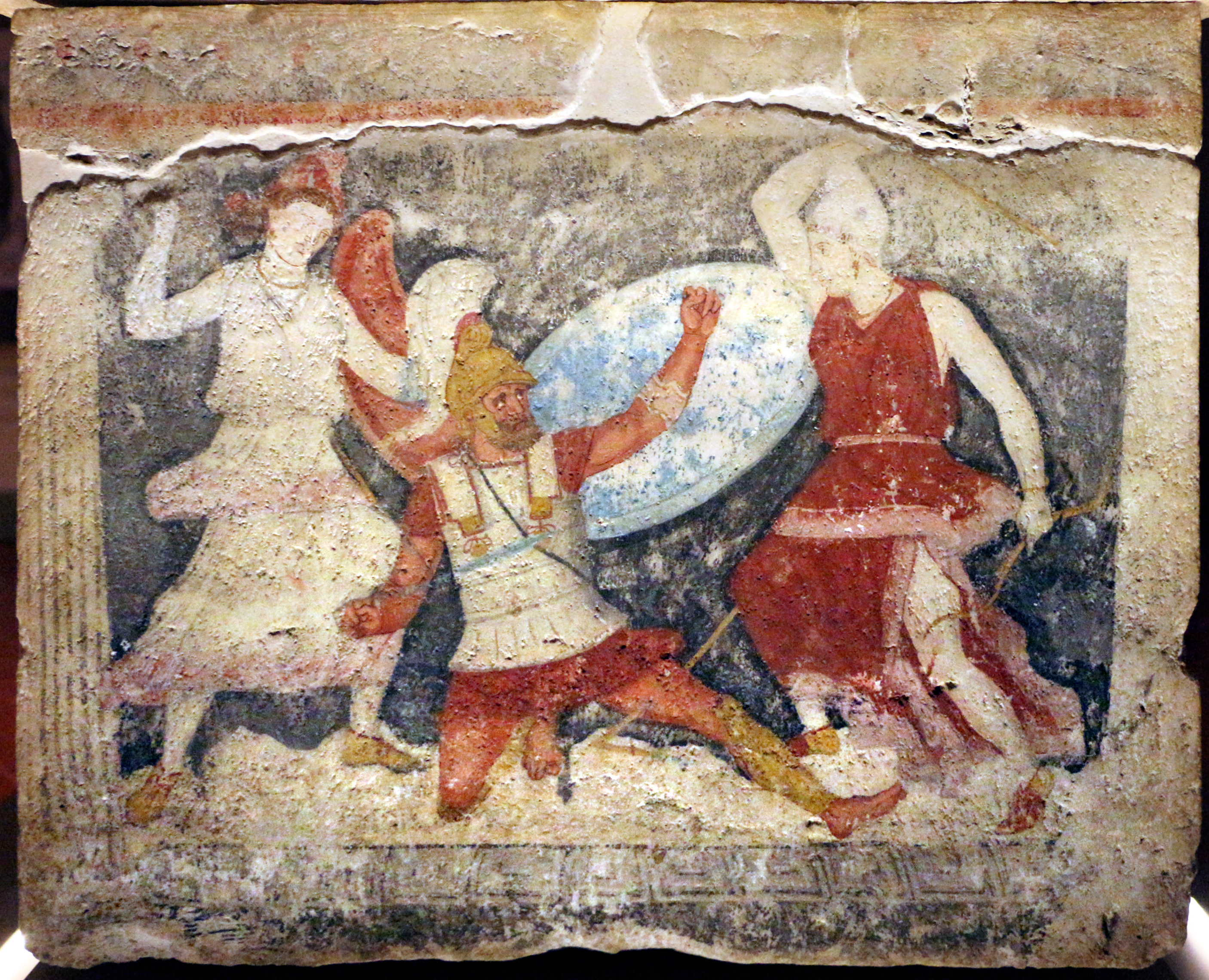 Sarcofago delle Amazzoni